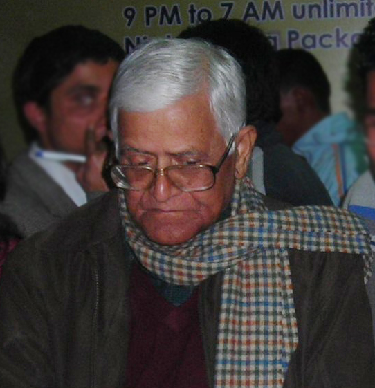 Cropped the source for profile picture.